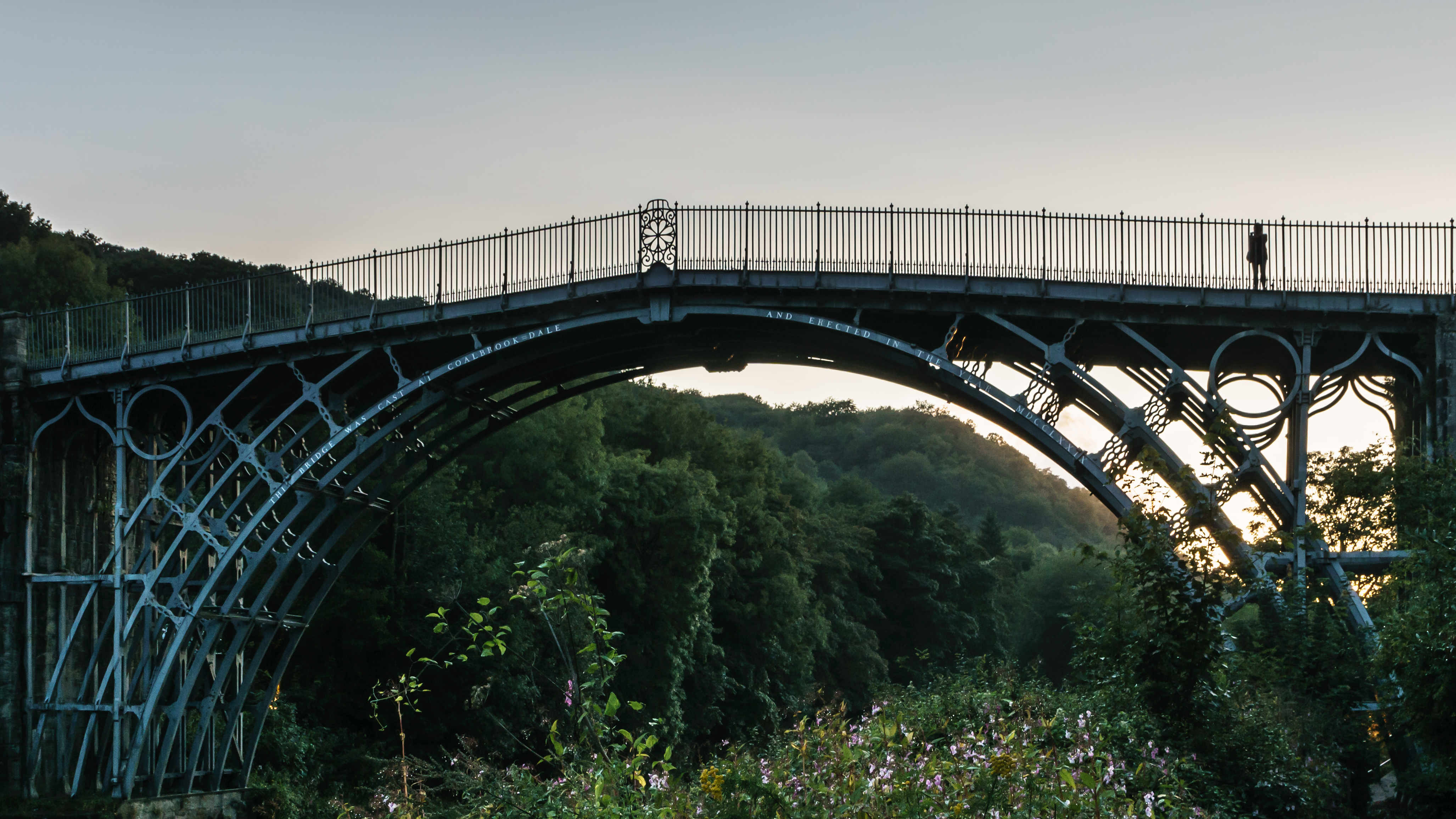 The Ironbridge over the River Severn. The arch says "The bridge was cast at Coalbrook = Dale and erected in the year MDCCLXXIX" Wikidata has entry Q99200 with data related to this building.